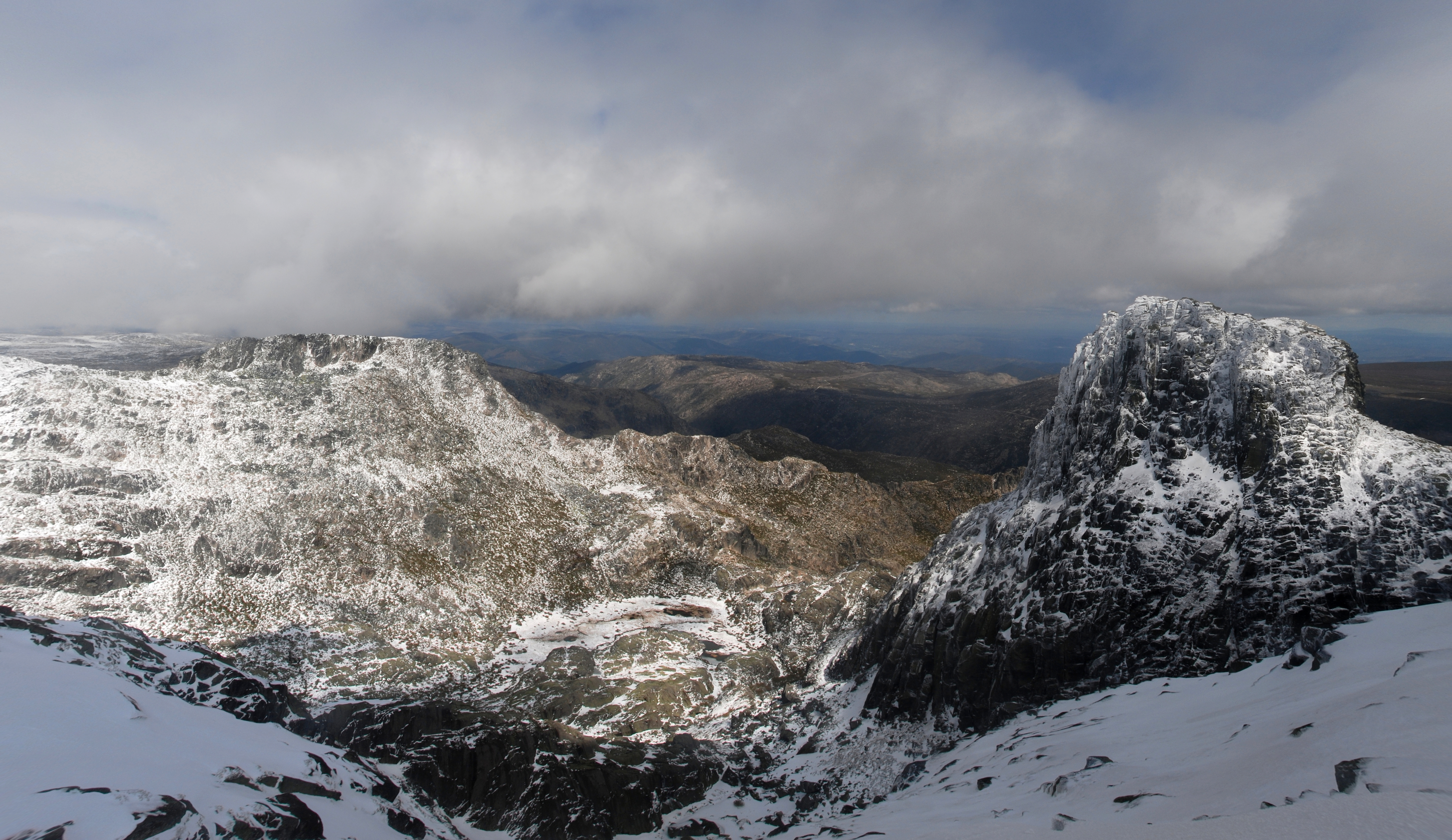 A view of the Serra da Estrela ('Estrela Mountains'), Portugal. Panorama of seven photos